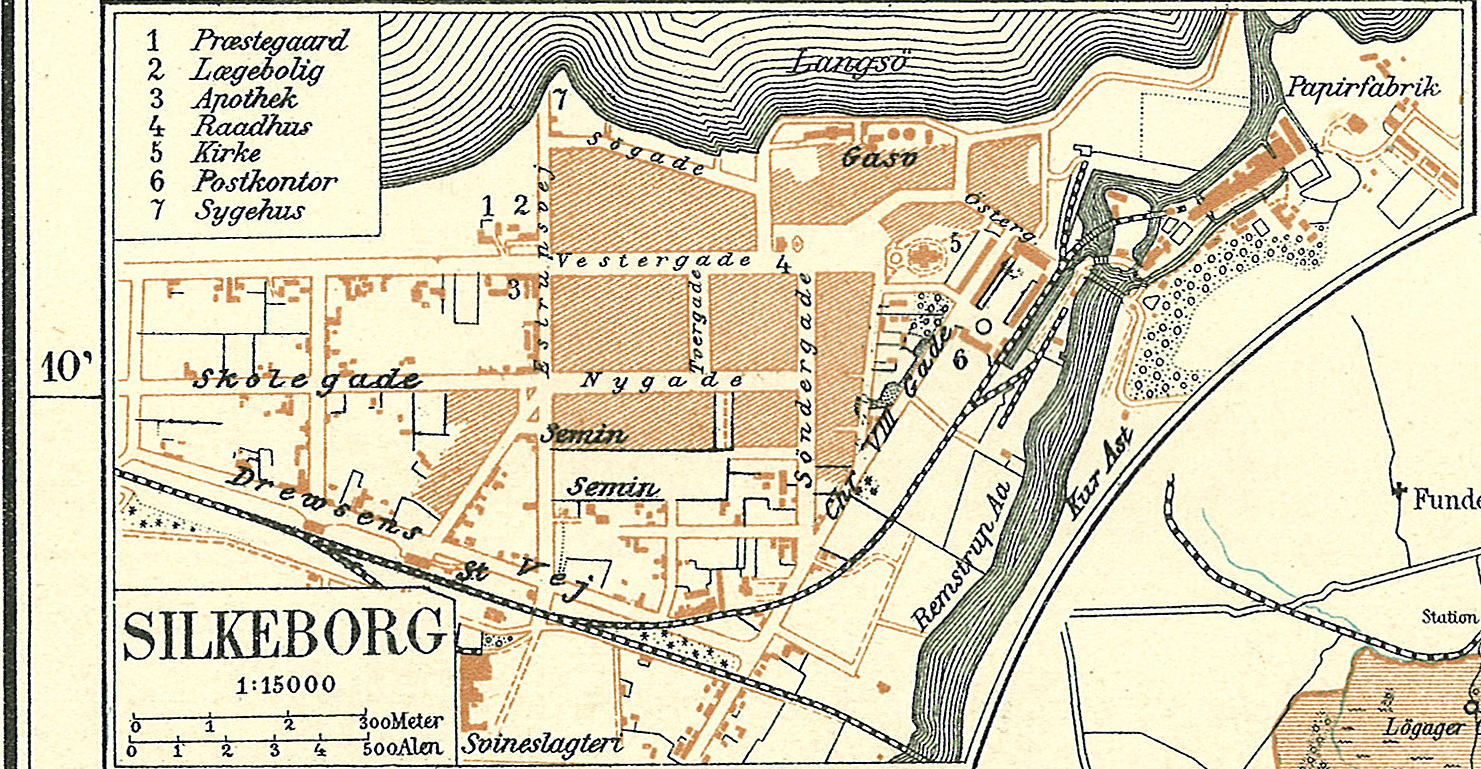 Map of Silkeborg in Skanderborg County in Denmark